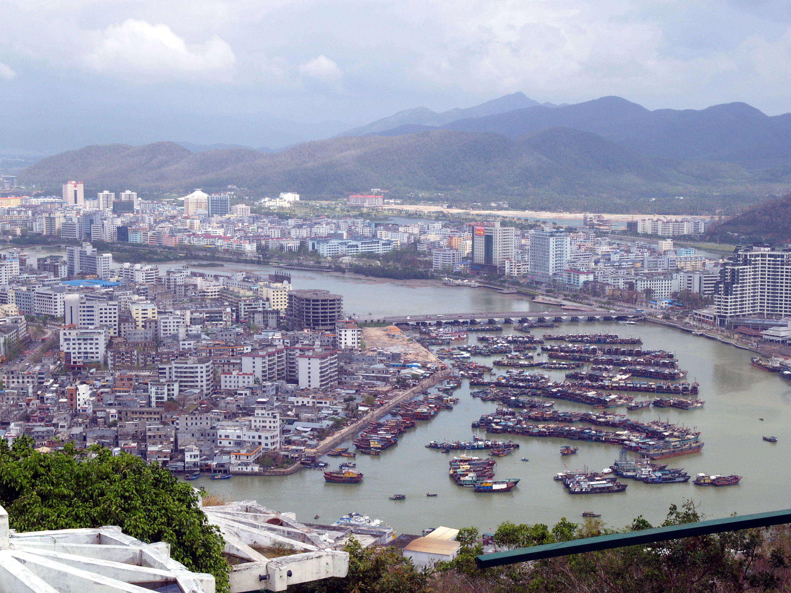 海南三亞市全景右（Right part of City Sanya in Hainan China)